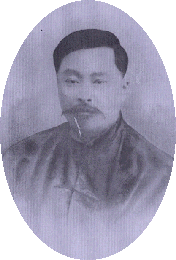 Yang Shwin Yong Tzu Ye (Yang Chun Yon), Myosa of Kokang (r. 1916–1927)